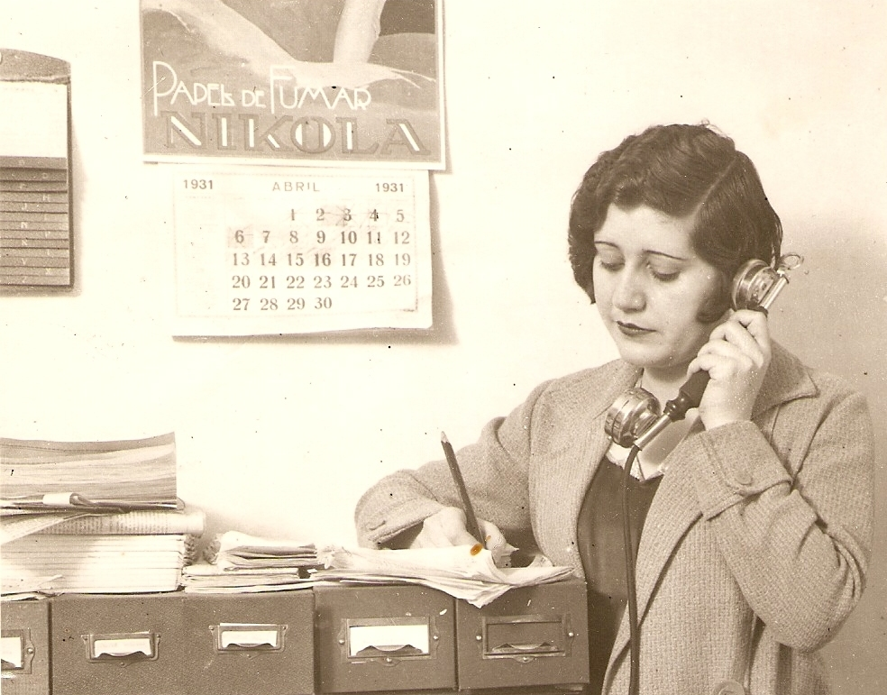 Spanish Journalist Josefina Carabias